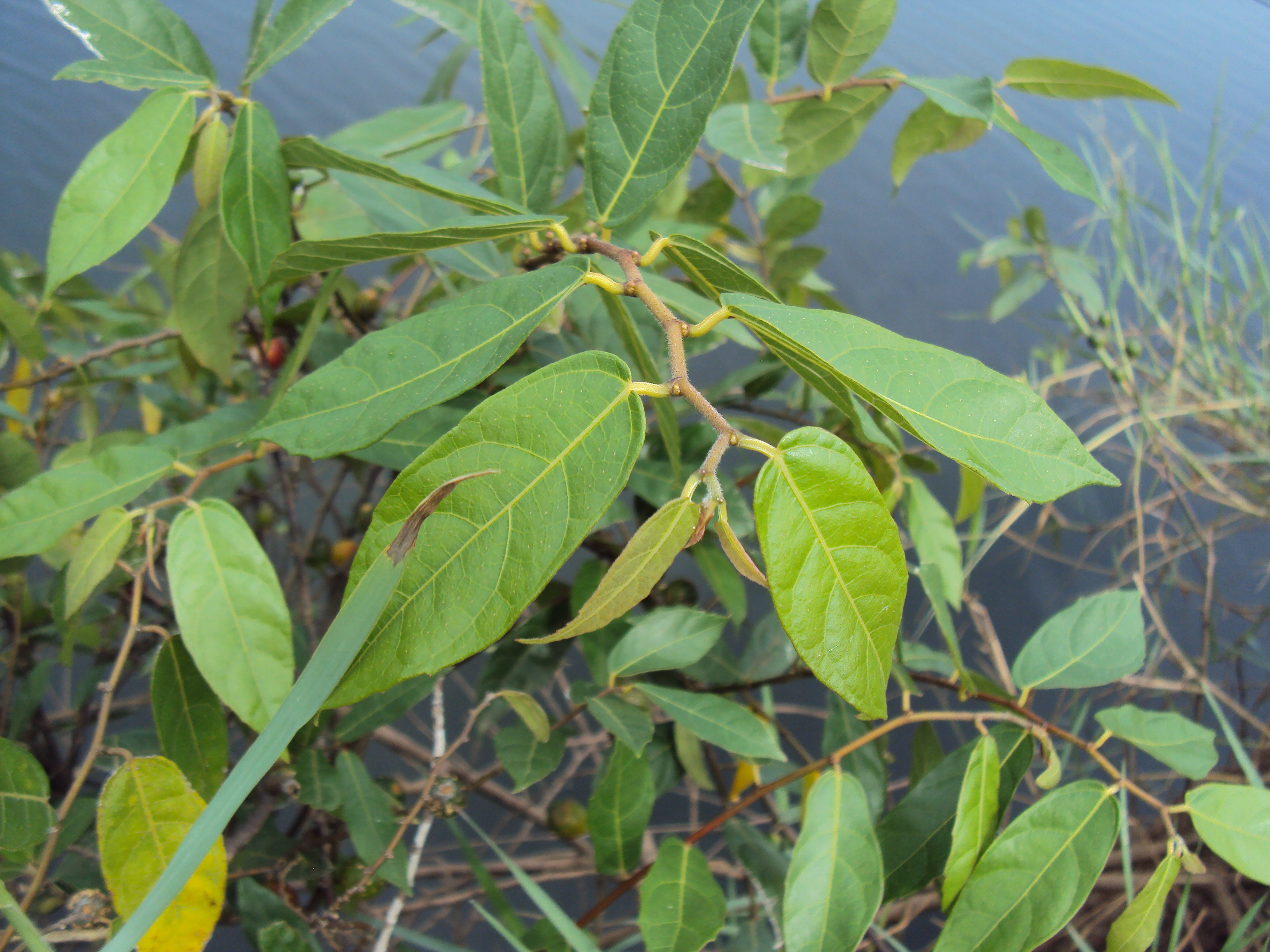 Ficus heterophylla